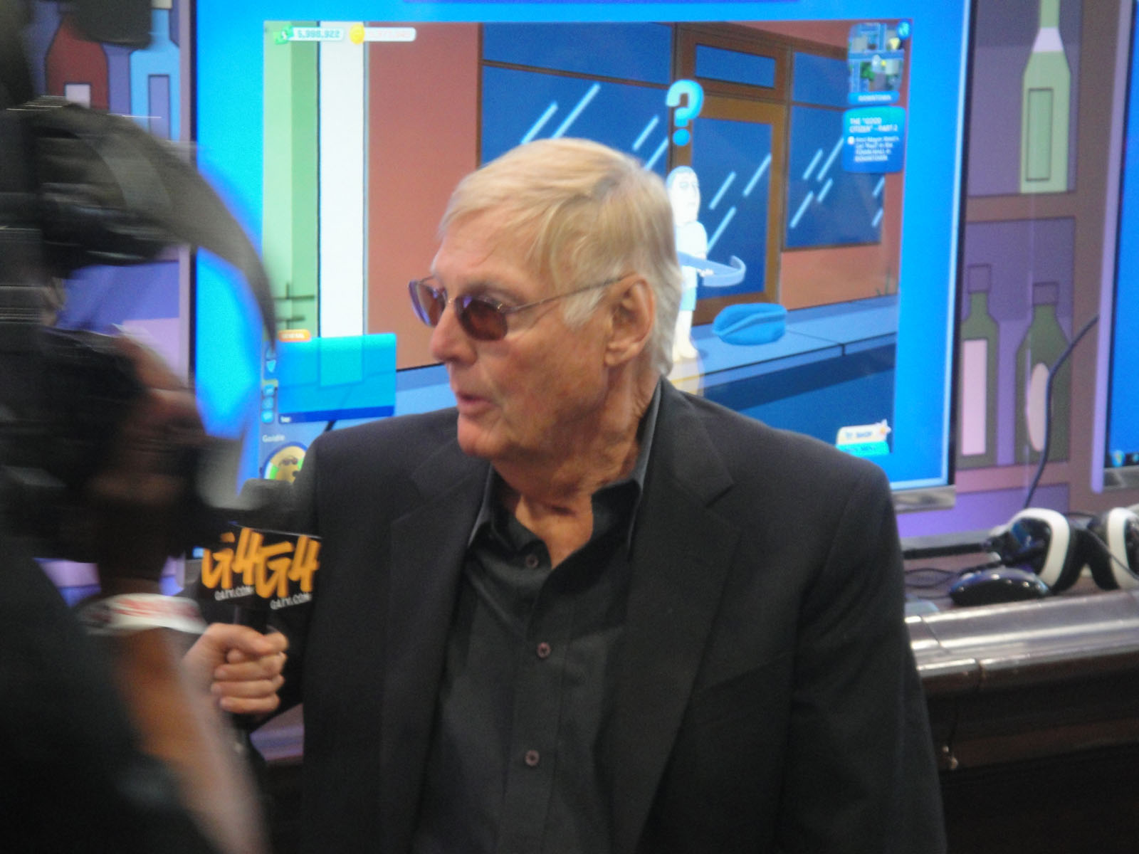 E3 Expo 2012 - Adam West at the Family Guy Drunken Clam booth